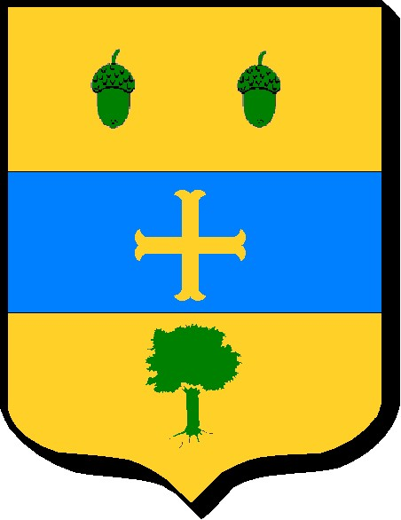 Coat of Arms, Bailly, Famille Le Clerc, Paris